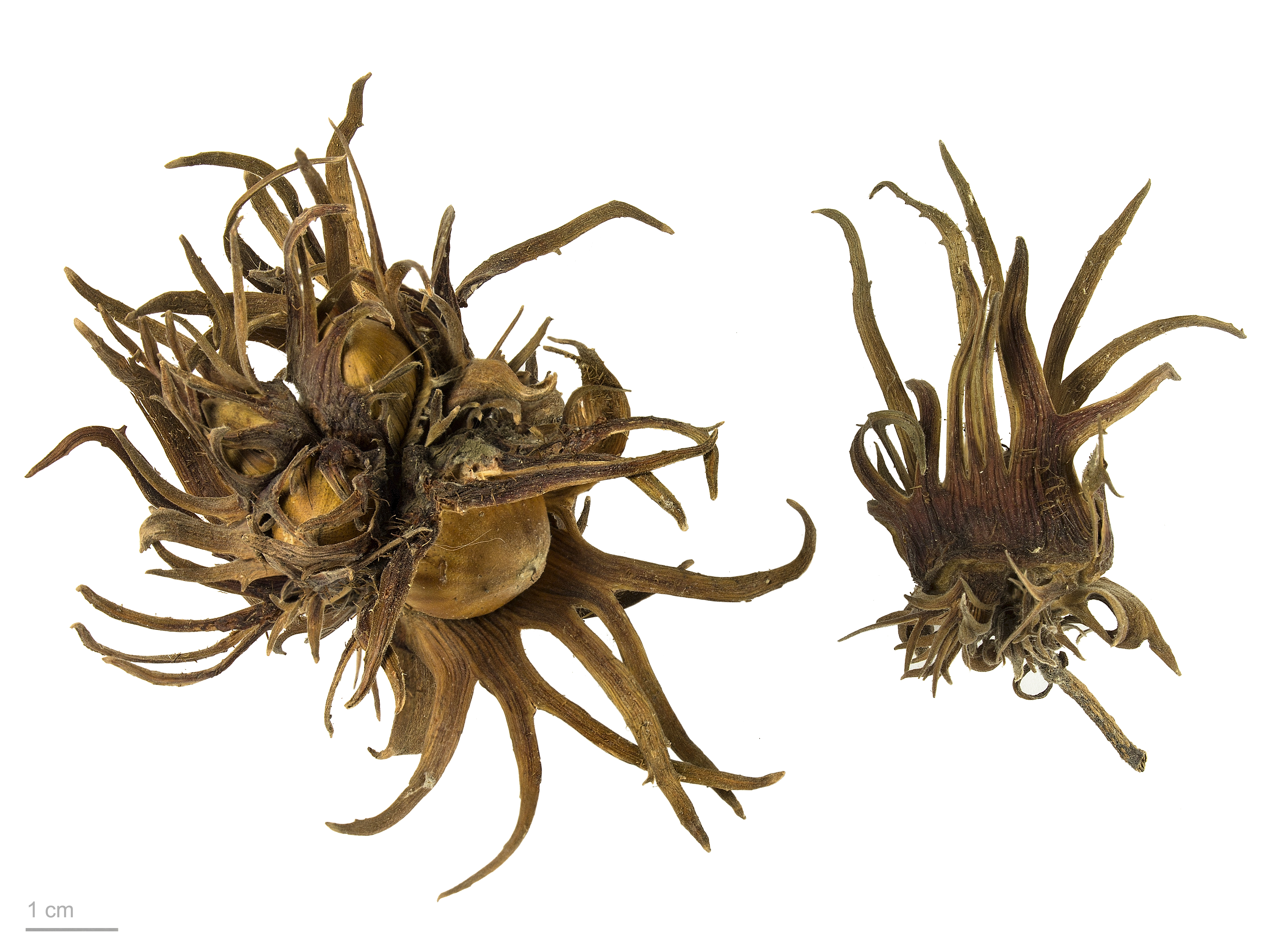 Turkish hazel , fruits and seeds